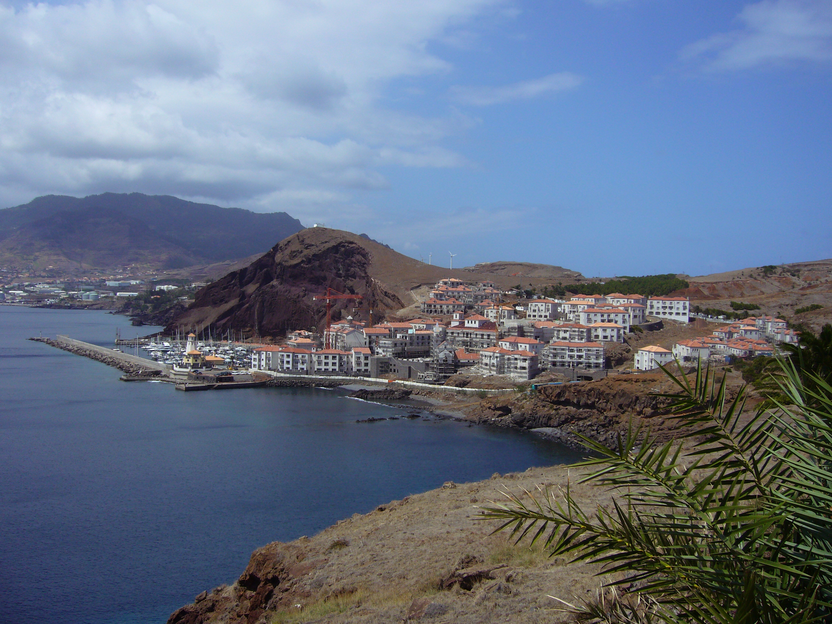 New houses at Quinta do Lorde - Madeira